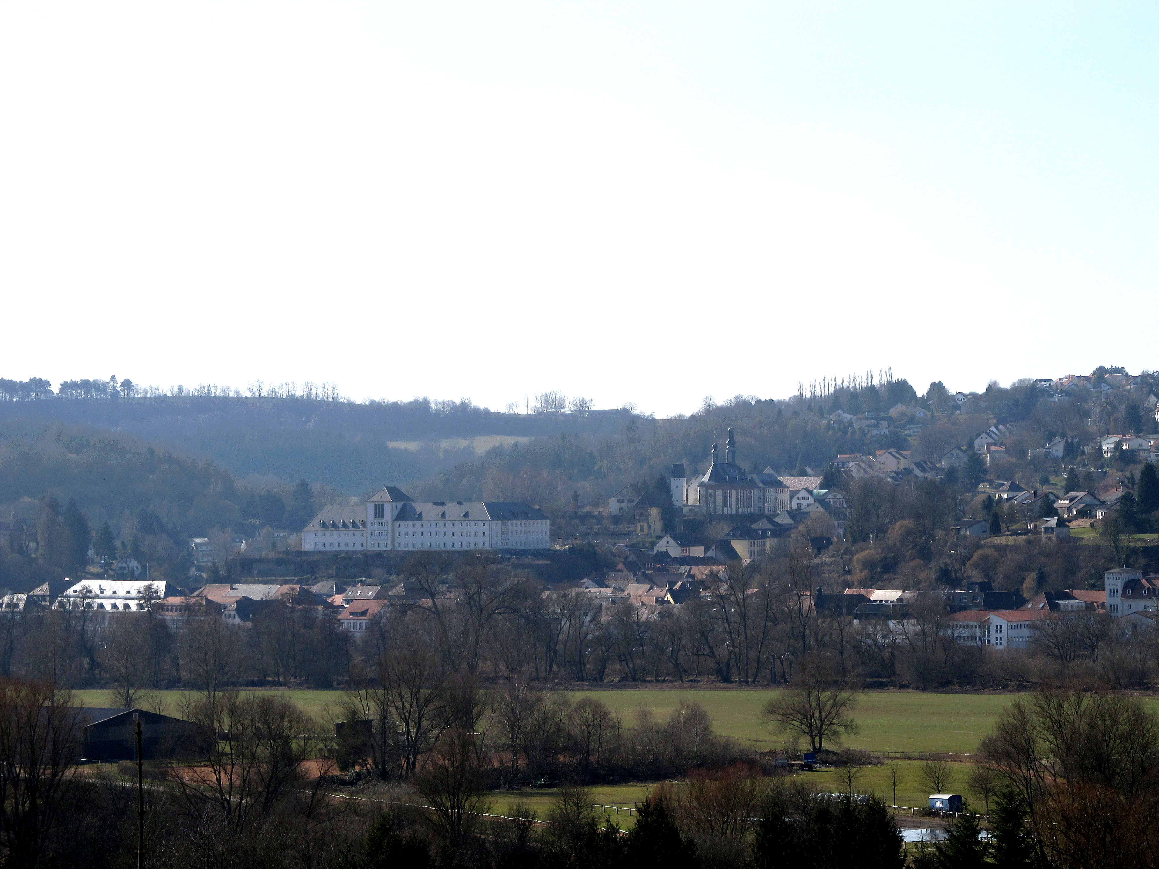 Blieskastel viewed from Webenheim